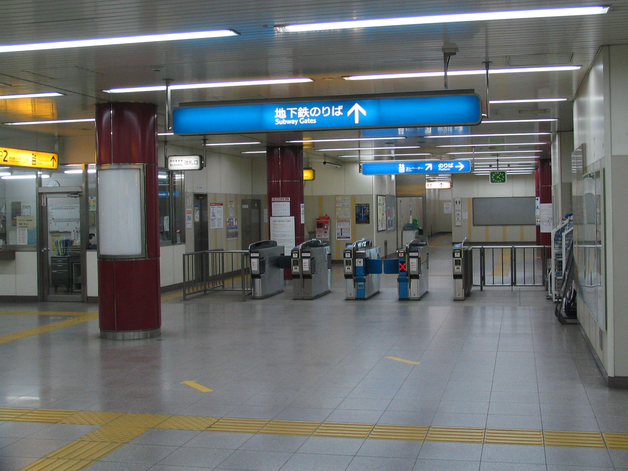 横浜市営地下鉄ブルーライン中田駅改札口 Nakada Station`s ticket gate. (Yokohama Subway).